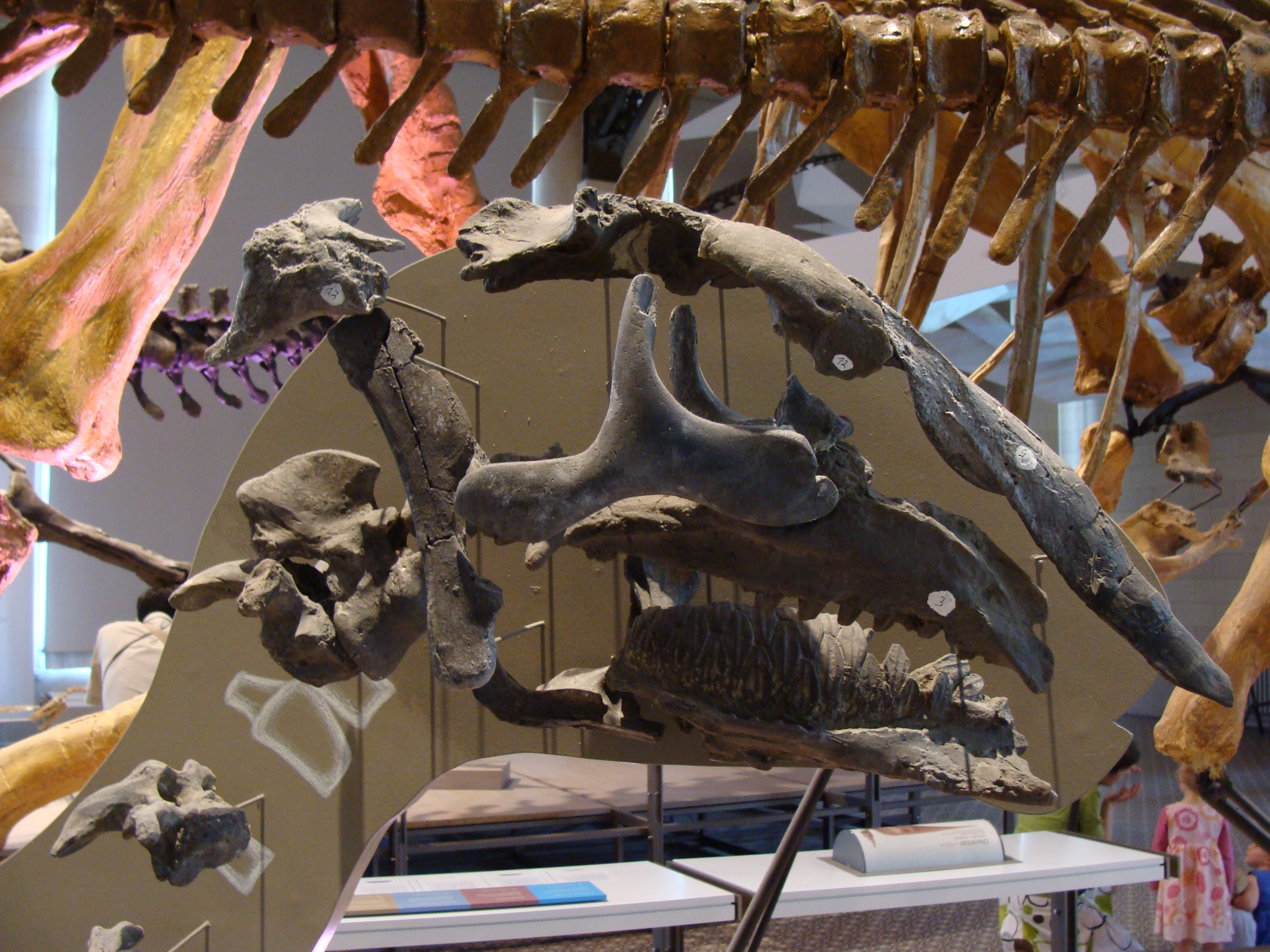 Partial Bactrosaurus skull in the Royal Belgian Institute of Natural Sciences.